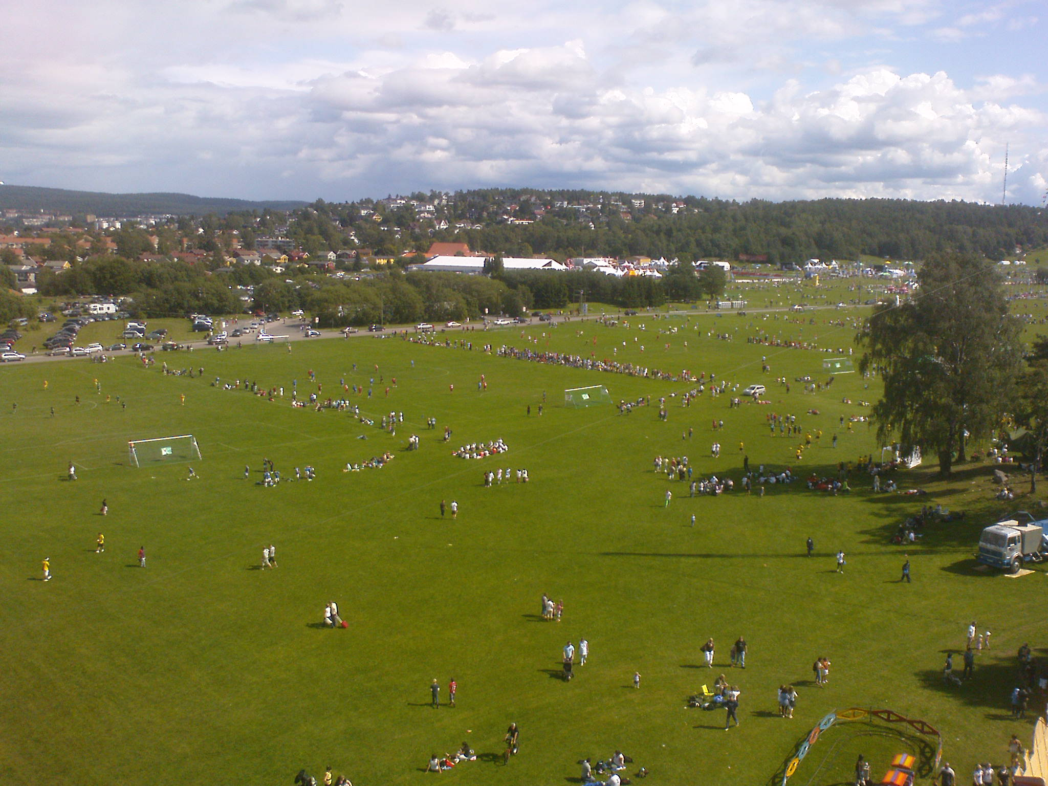 Ekebergsletta with Ekeberg Skole in the background at Norway Cup in 2009